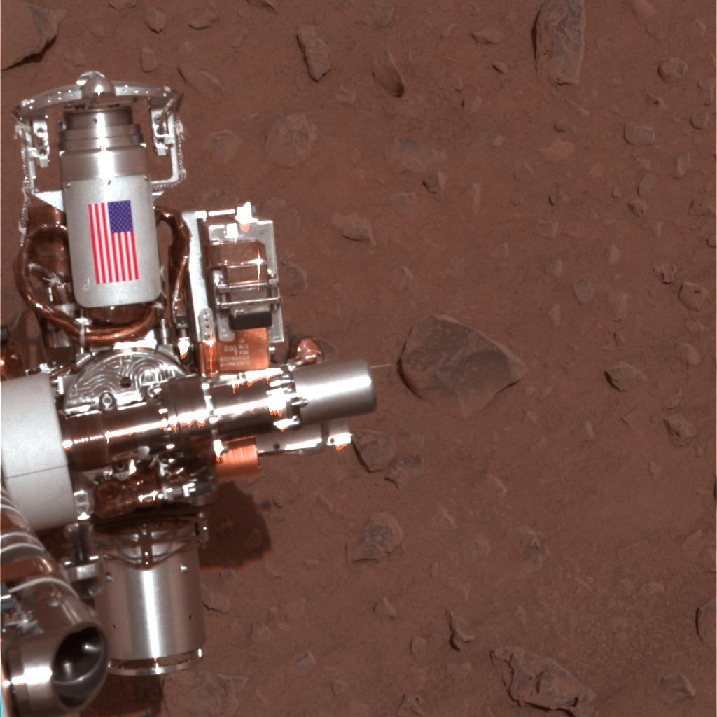 The piece of metal with the American flag on it in this image of a NASA rover on Mars is made of aluminum recovered from the site of the World Trade Center towers in the weeks after their destruction. The piece serves as a cable guard for the rock abrasion tool on NASA's Mars Exploration Rover Spirit as well as a memorial to the victims of the Sept. 11, 2001, attacks. An identical piece is on the twin rover, Opportunity.